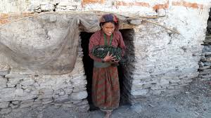 सुदूपश्चिमका महिलाको अवस्था